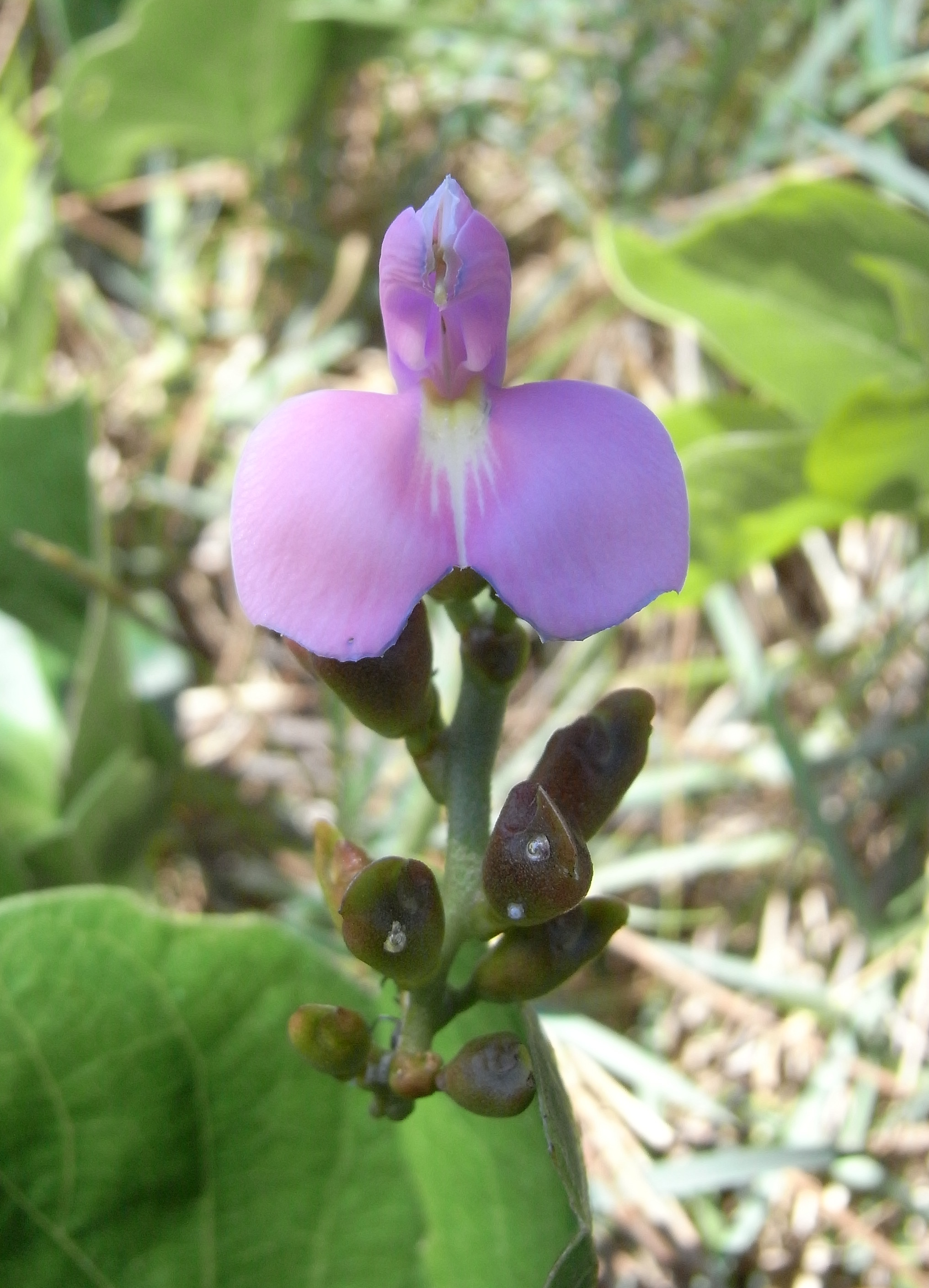 Bay Bean (Canavalia rosea), slightly gnawed, near Woody Head, Bundjalung National Park, Australia.